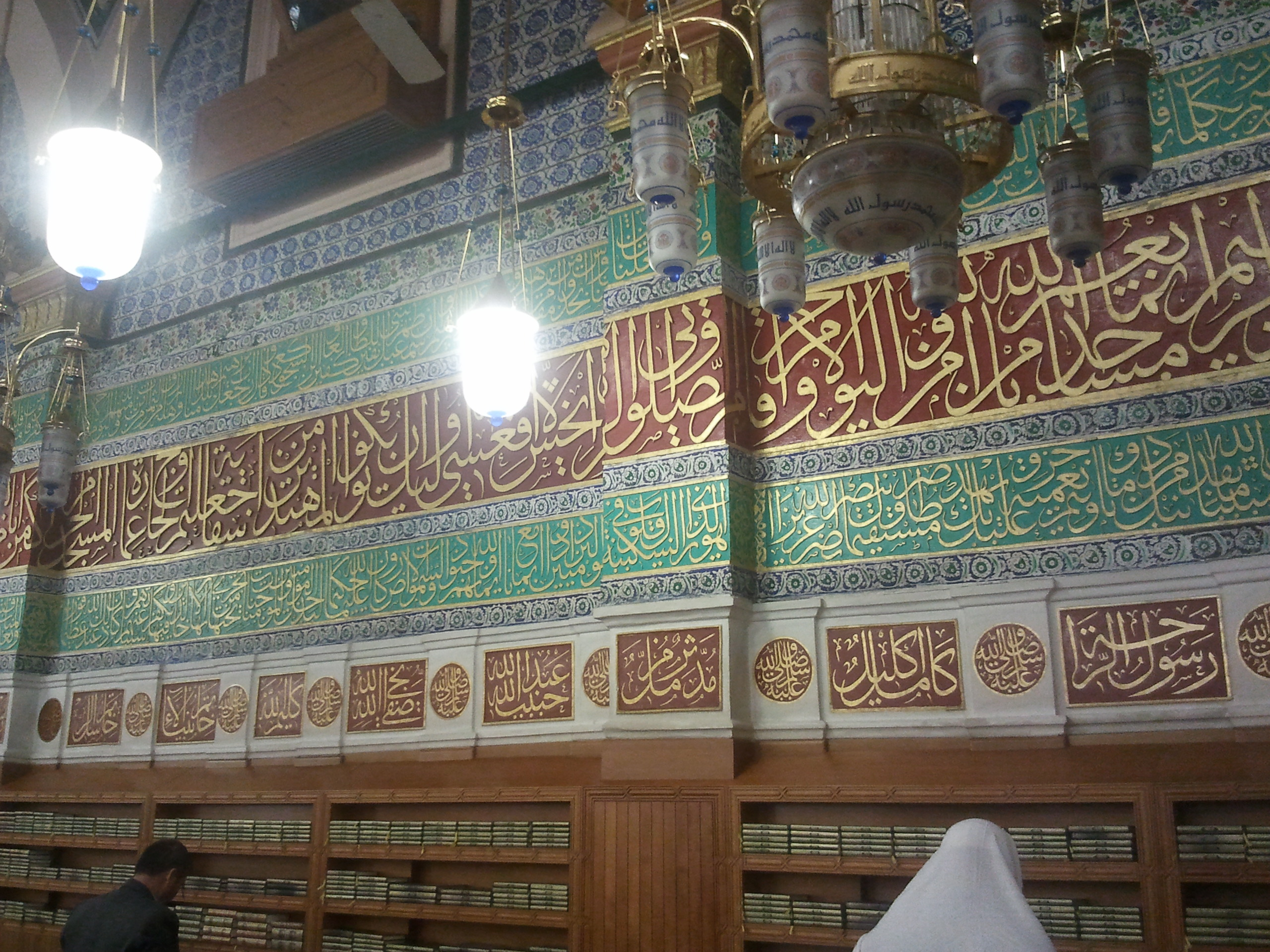 Al-Masjid al-Nabawi south side